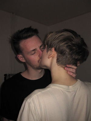 Two men kissing at home.